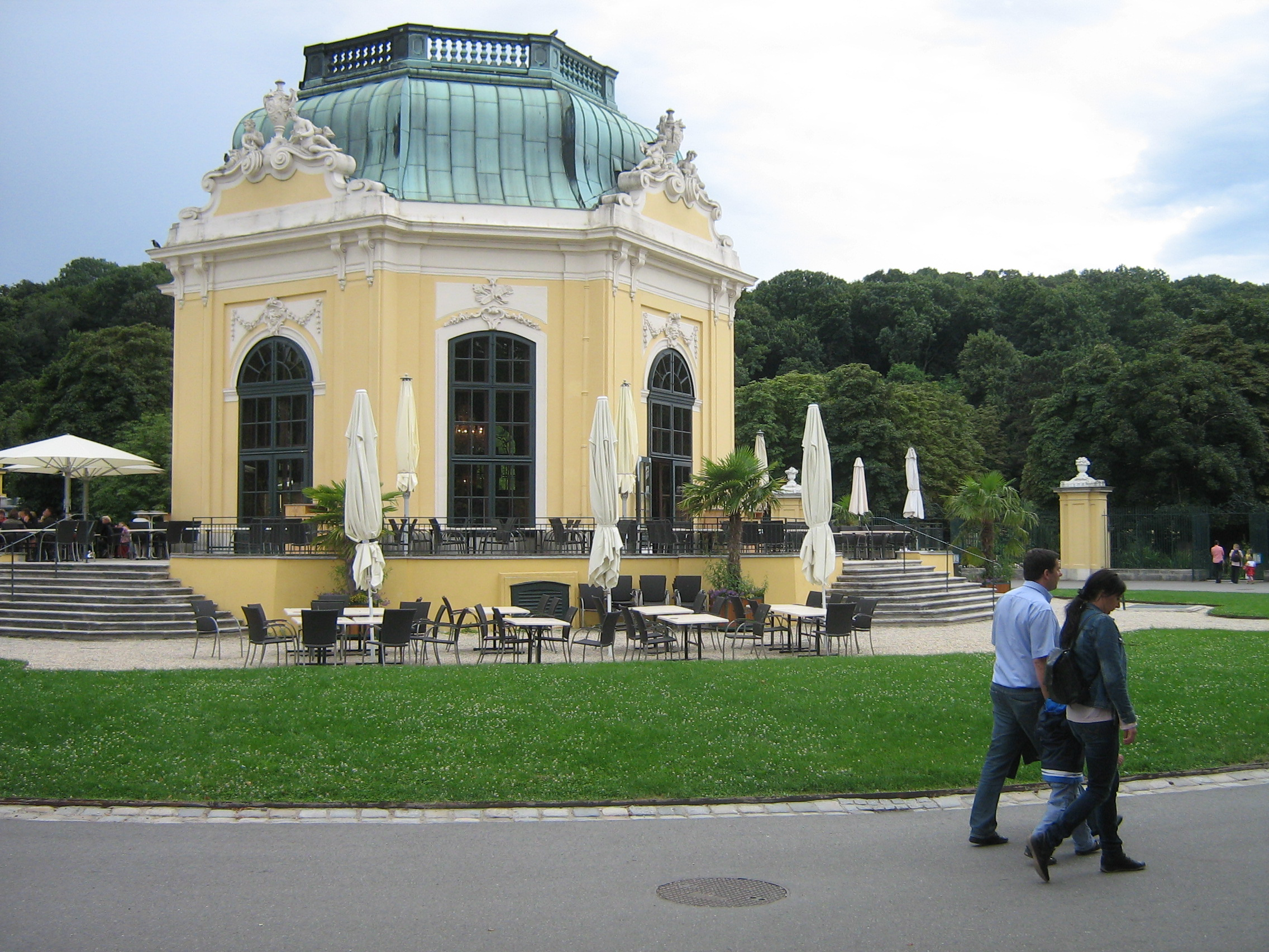 Austria, Vienna, Tiergarten Schönbrunn